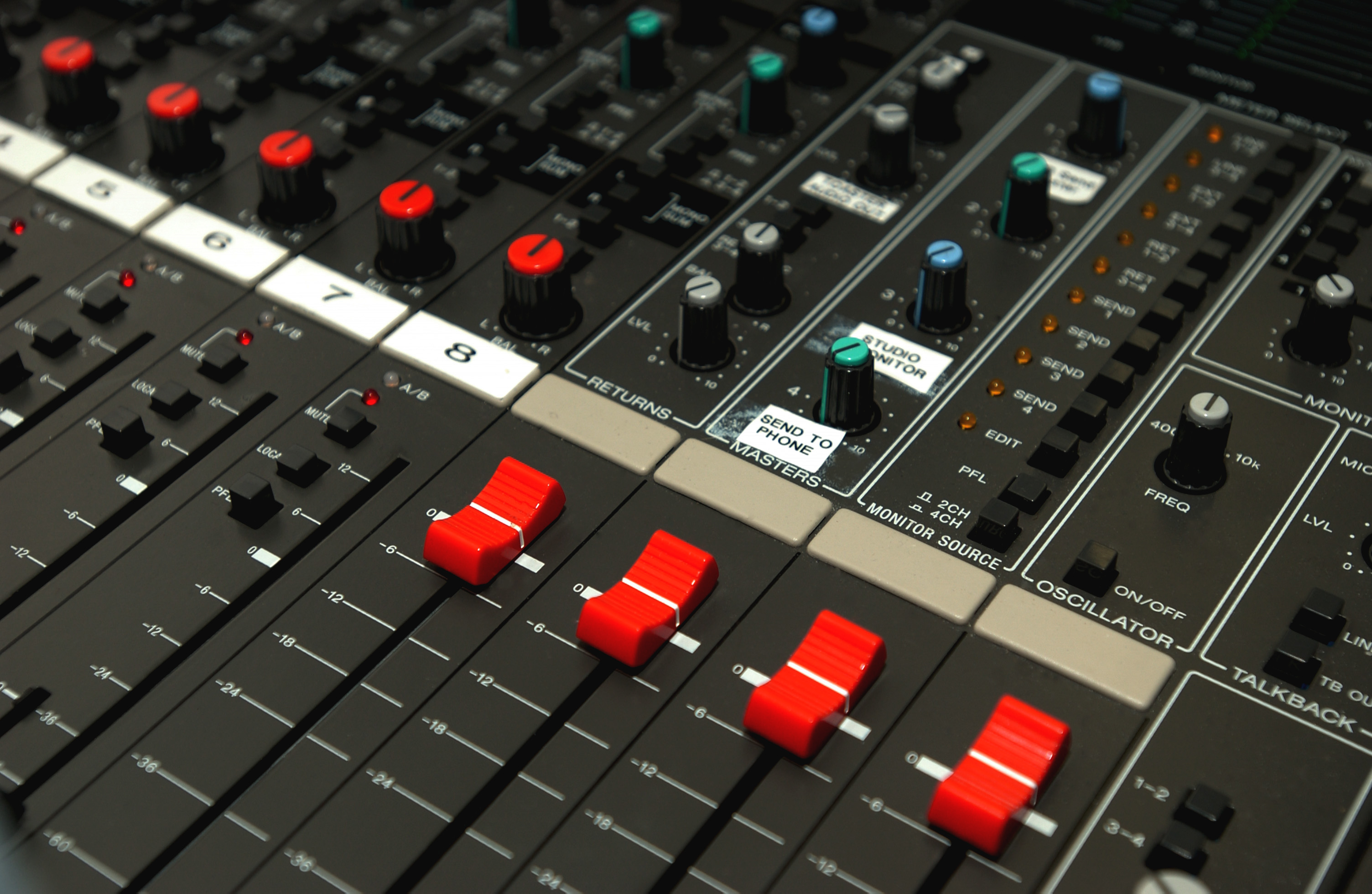 Washington, DC March 7, 2005 -- The audio mixing console at the FEMA headquarter's video production studio. Photo by Bill Koplitz/FEMA photo